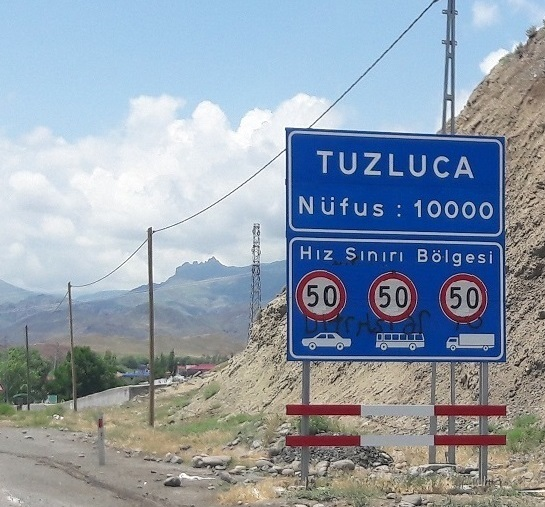 A view from Tuzluca.